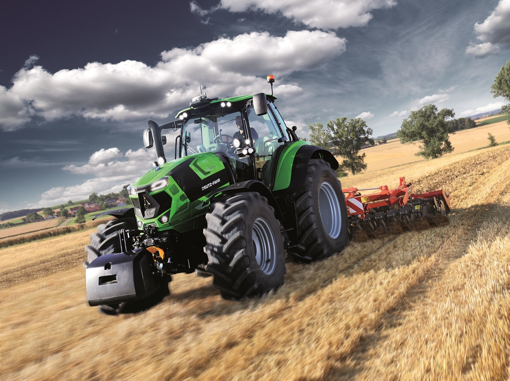 Deutz-Fahr 7 series